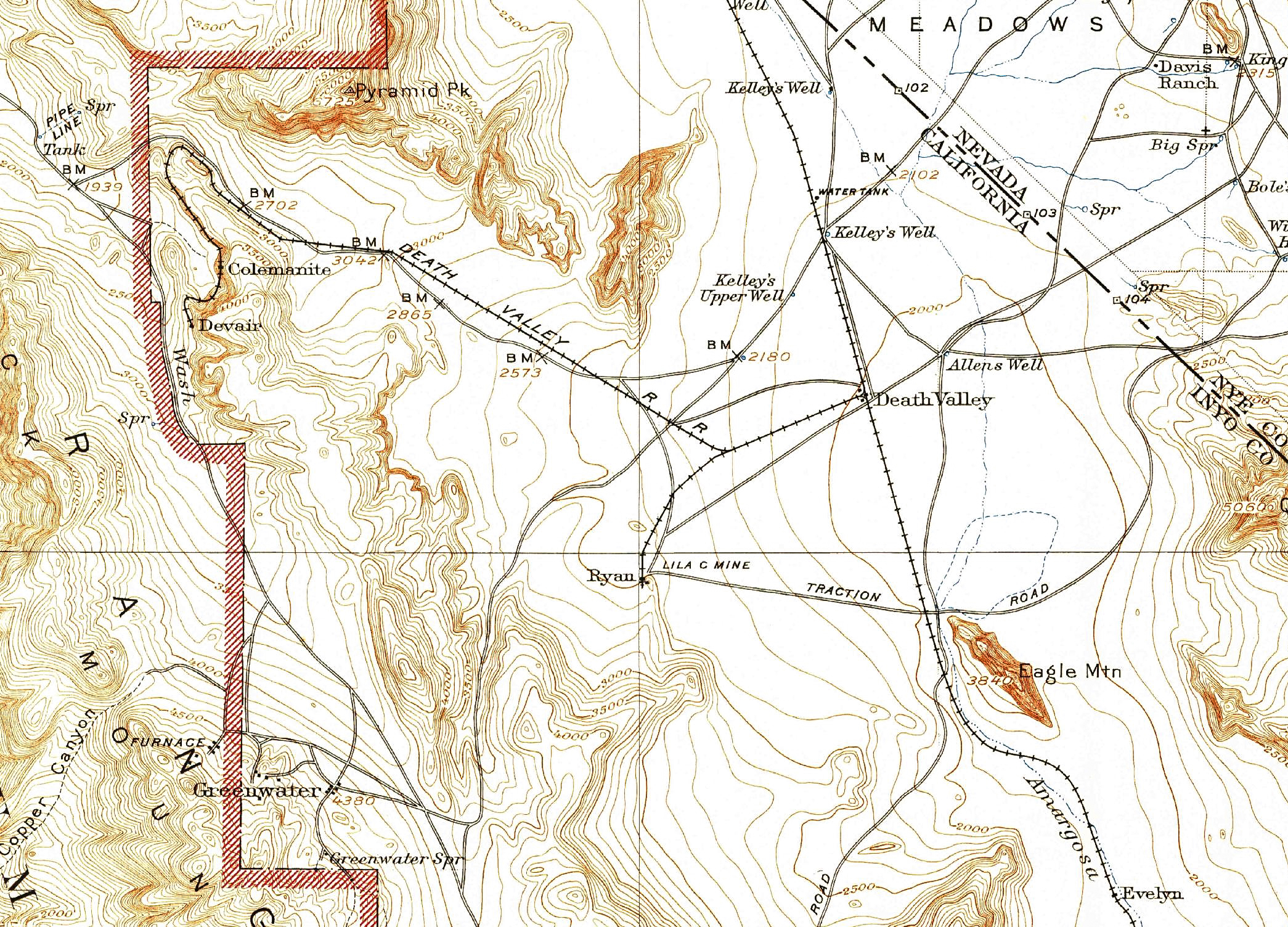 1930 Death Valley Railroad to Colmanite and Devair – 30 Minute Series, Furnace Creek Quadrangle United States Geological Survey